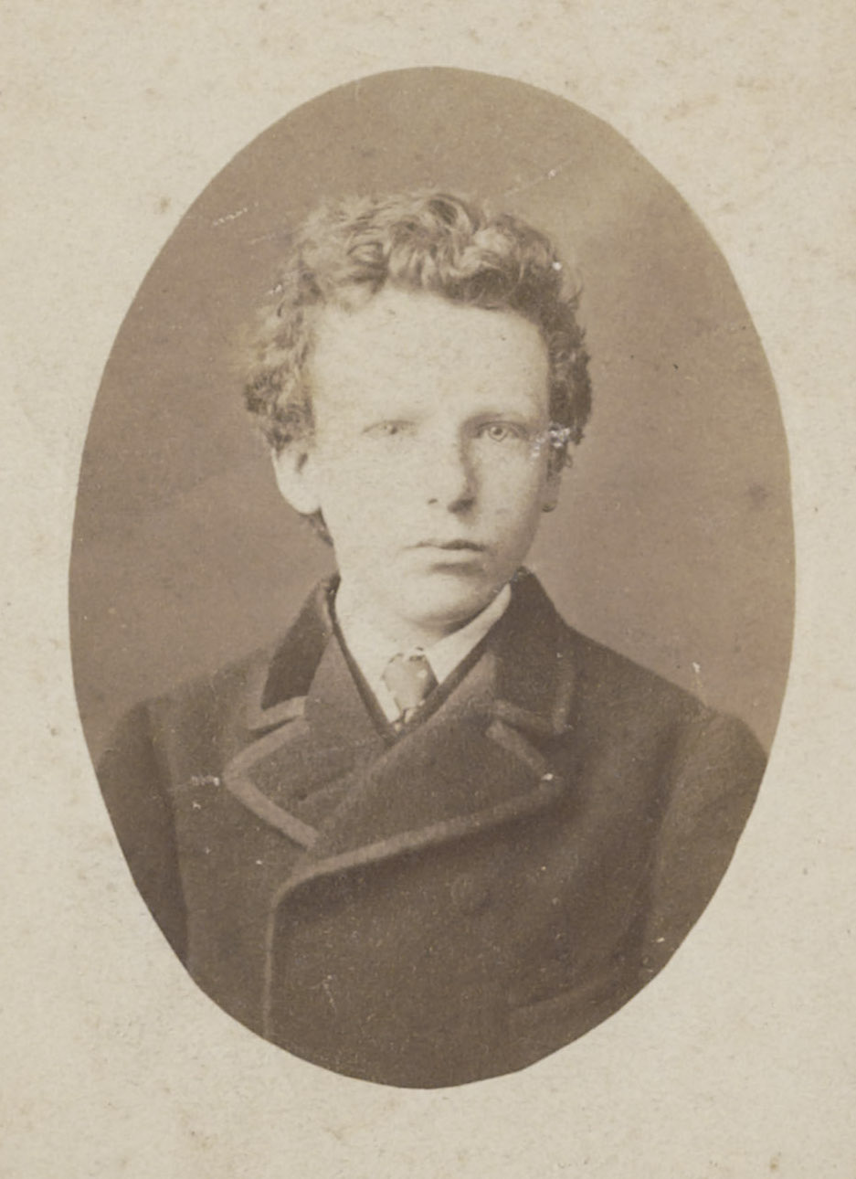 Theo van Gogh at circa 15 years of age